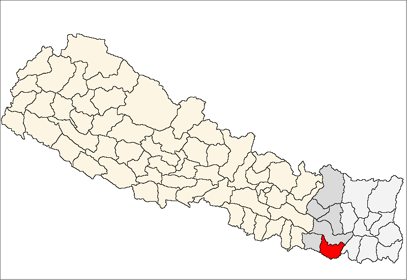 FrenchCarte de localisation dudistrict de Saptari(wp-FR),au Népal (wp-FR).EnglishLocation map ofSaptari District(wp-EN),in Nepal (wp-EN).